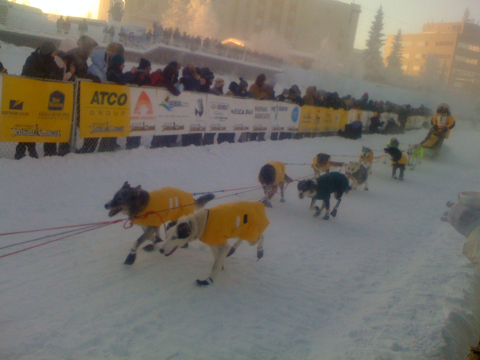 Didier Moggia leaves the starting gate as the first musher to begin the 2008 Yukon Quest in Fairbanks, Alaska.